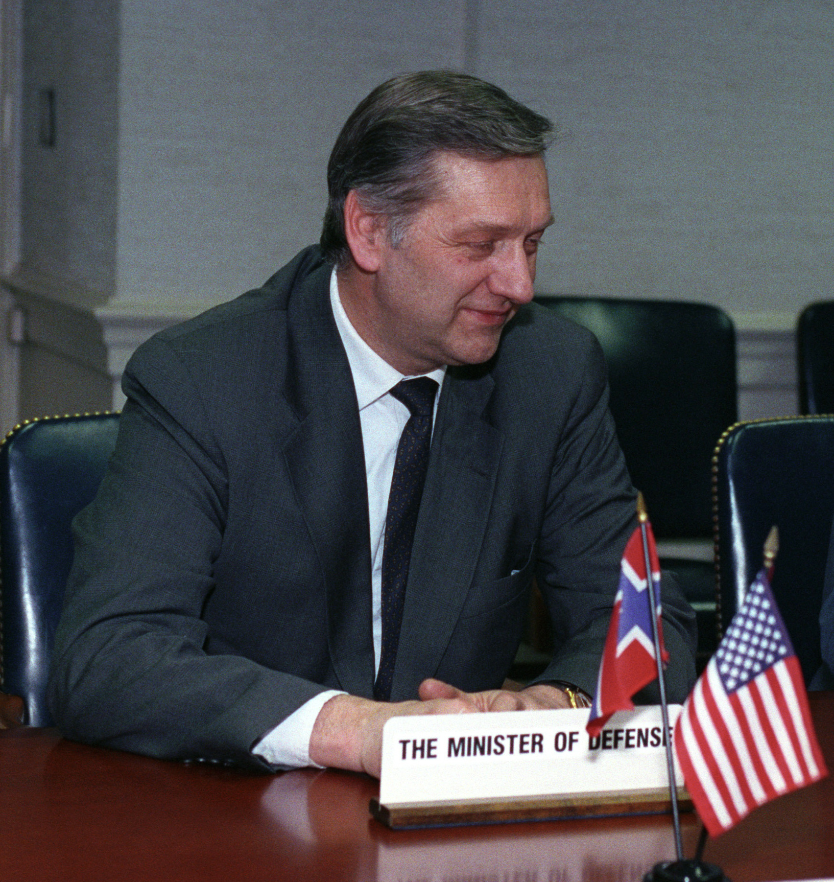 Mr. Johan Jørgen Holst (left), Norwegian Foreign Minister, sits in a meeting at the Pentagon, Washington, D.C.